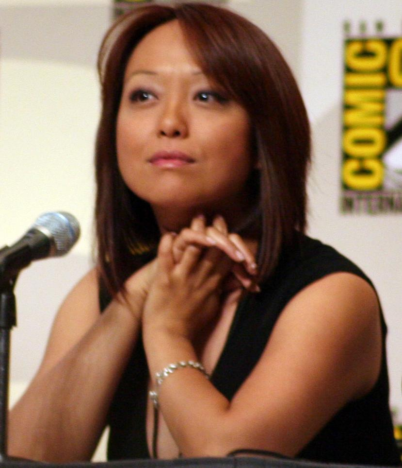 Naoko Mori at the 2008 Comic-Con Torchwood panel.